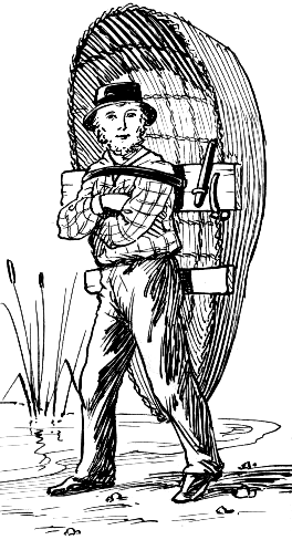 b/w line art of a coracle